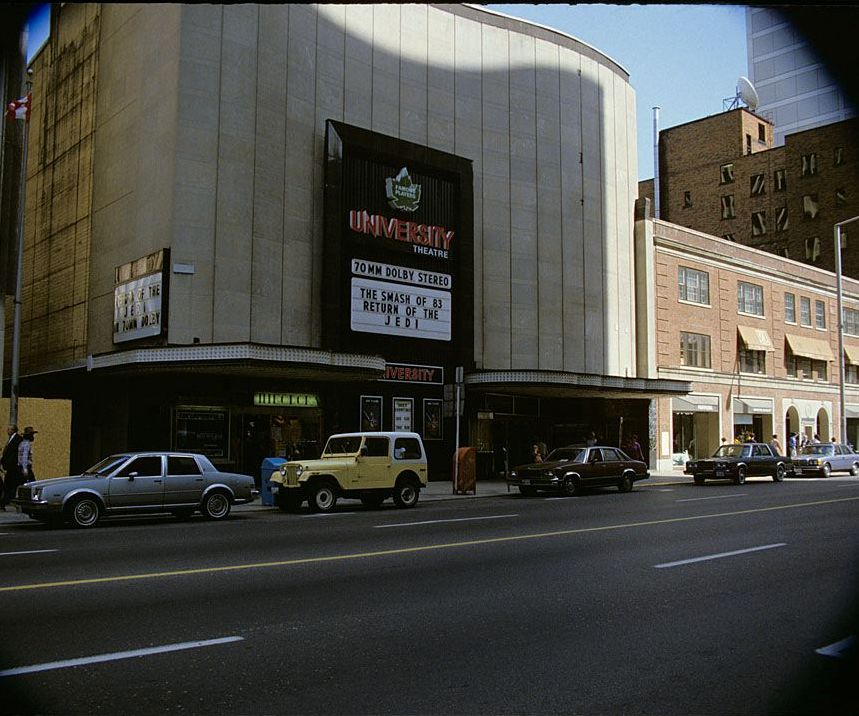 The University Theatre on Bloor Street West in Toronto, Ontario, Canada in 1983. The marquee shows that "Return of the Jedi" was being shown. The theatre facade still exists.